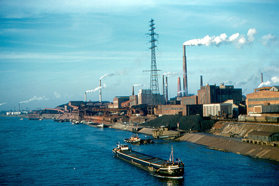 The industrial plant is Vereinigte Deutsche Metallwerke (United German Metalworks), on the Rhine River in Duisburg. The company was at its peak in 1960, with over 15,000 employees. It went downhill, beginning in the late 1960s, and now exists as parts of other firms.